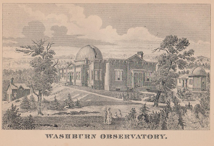 An illustration of the Washburn Observatory, from the 1885 Wisconsin Blue Book.